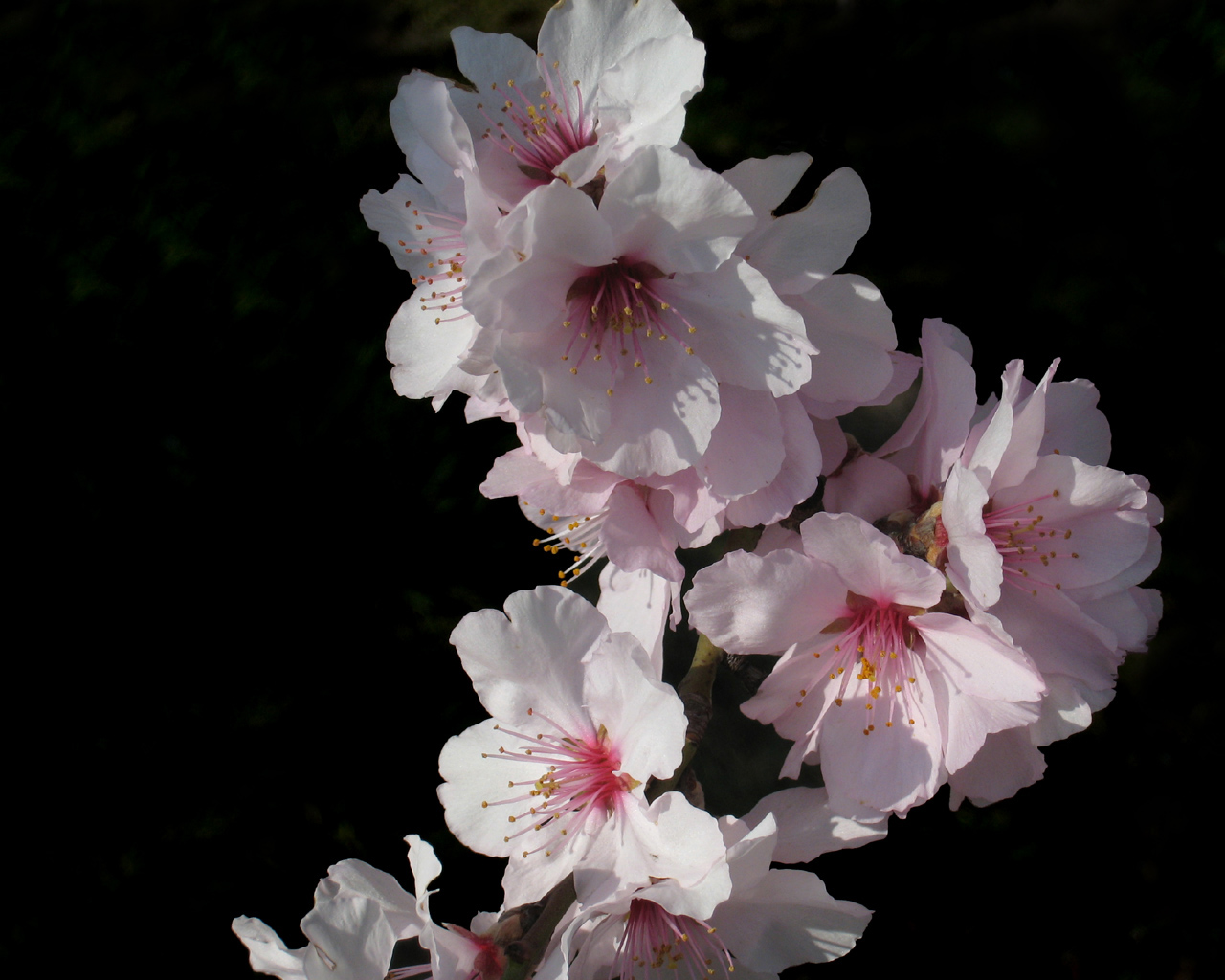 Prunus hybrid, probably Almond × Peach, blossom in early march in the middle Rhine area of Germany